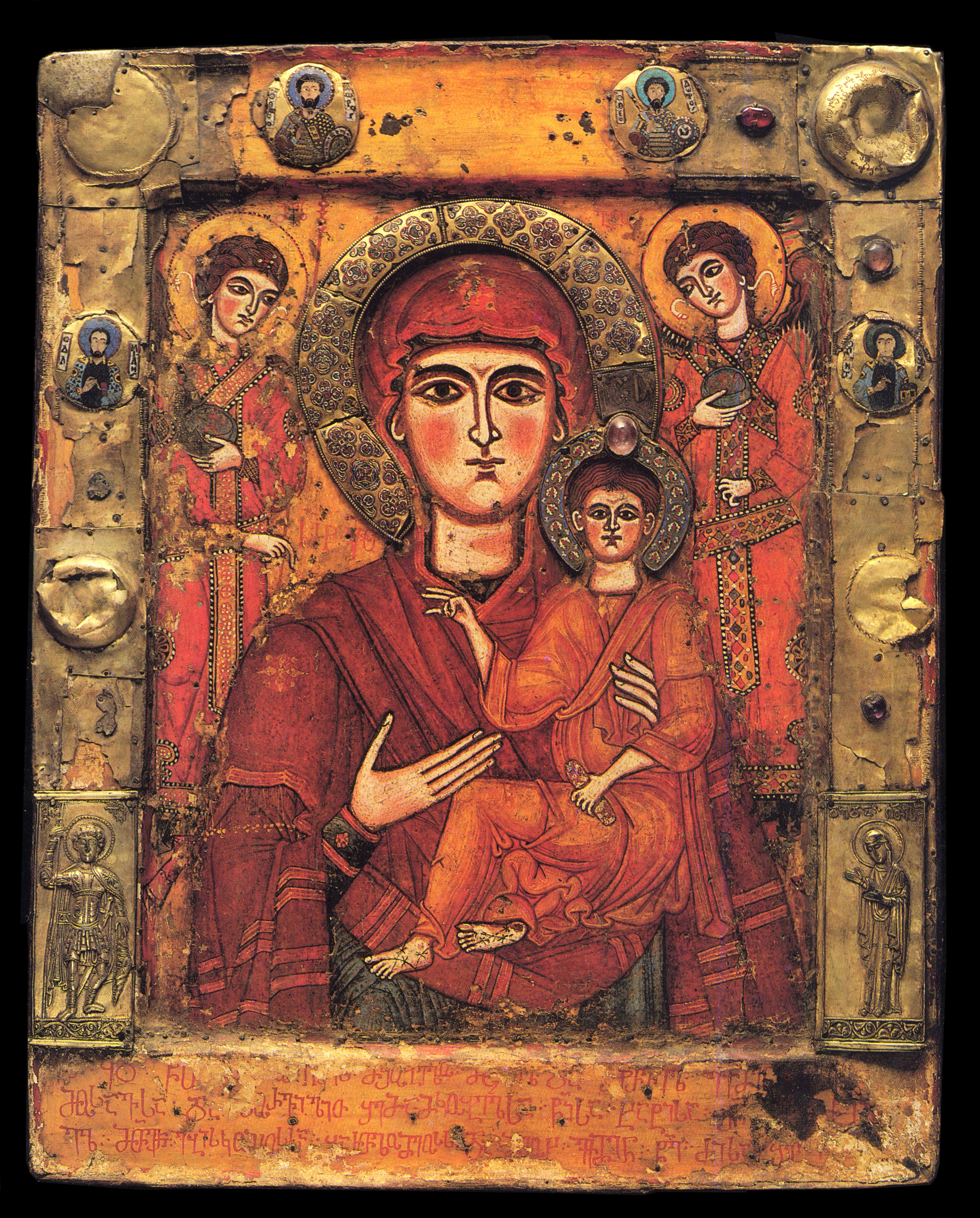 Virgin Mary as Hedegetria with Archangels from Zhilkany Monastery in Georgia